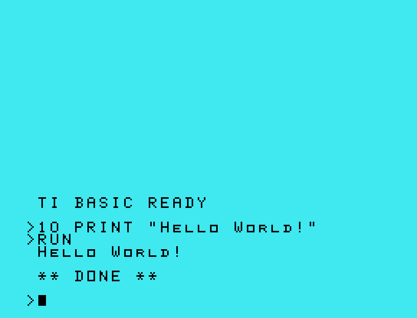 Very simple "Hello World!" program written in TI-BASIC on a TI-99/4A Home Computer.